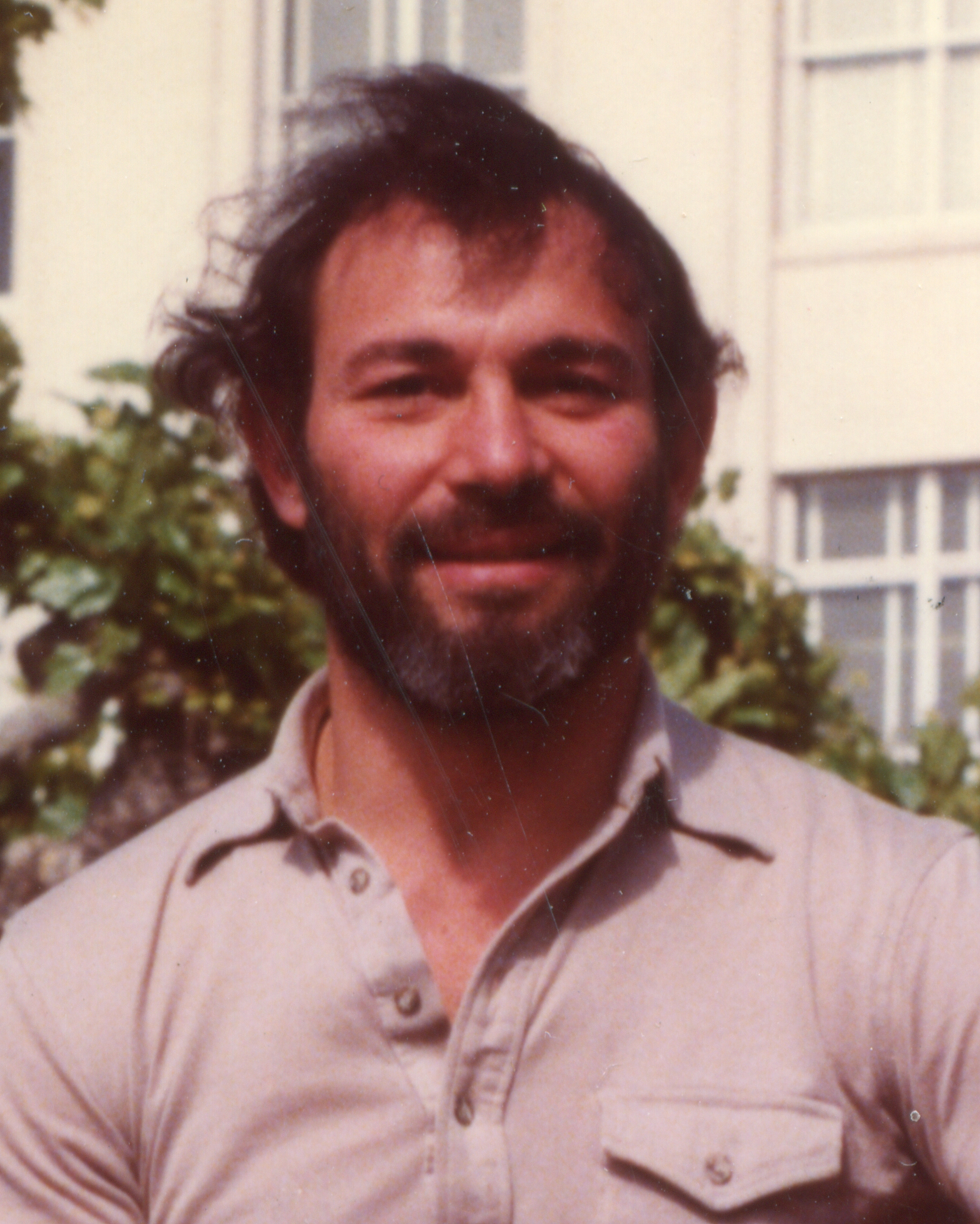 Hyman Bass at Berkeley, California (probably UC Berkeley) in 1978; colored photo scanned; portion re-scanned with increased photo resolution